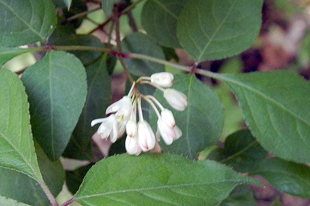 ミツバウツギ （山梨県甲州市）Staphylea bumalda (Kosyu-city, Yamanashi, JAPAN)